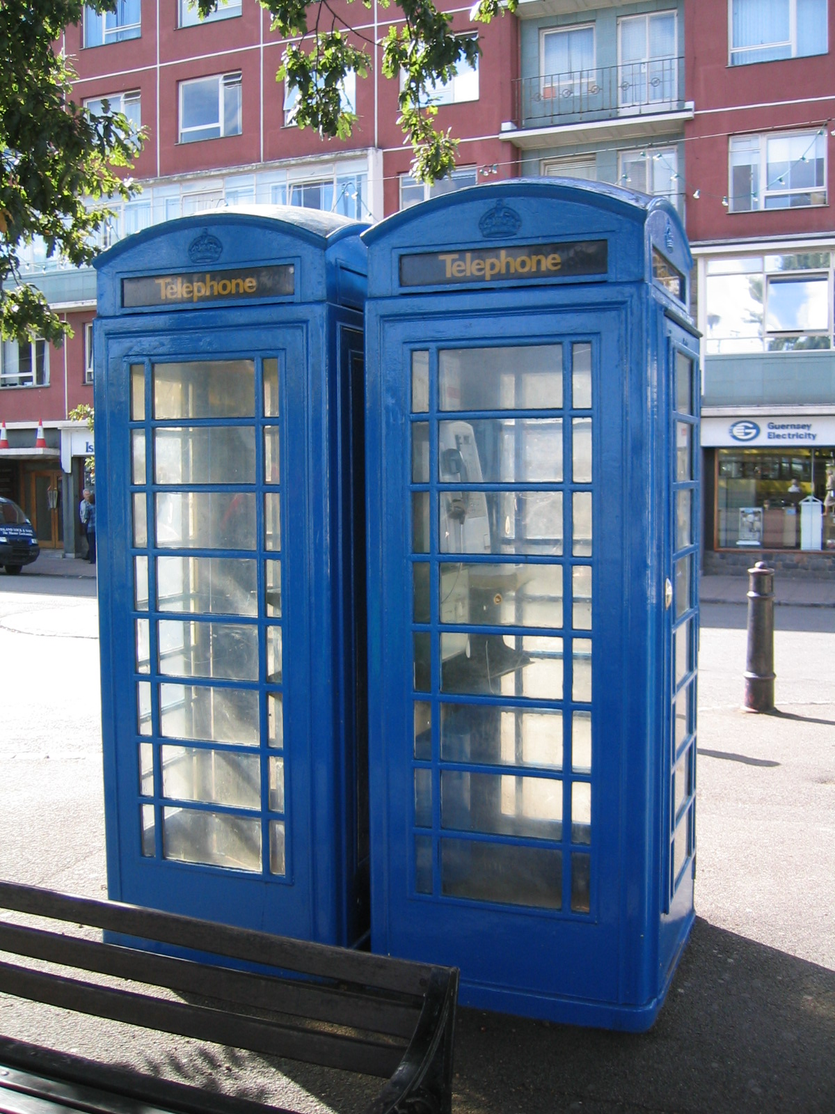 Blue telephone boxes in St Peter Port, Guernsey, operated by Sure. There are four K6 boxes of this type on Guernsey. The colour was changed to blue in 2002. Photo taken by me 2005-09-23.